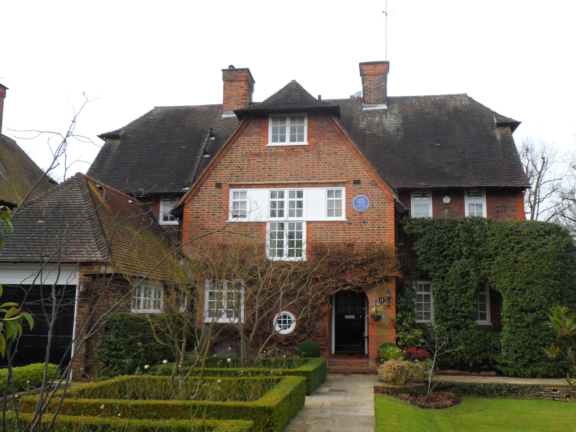 Frank Pick 1878-1941 pioneer of good design for London Transport lived here